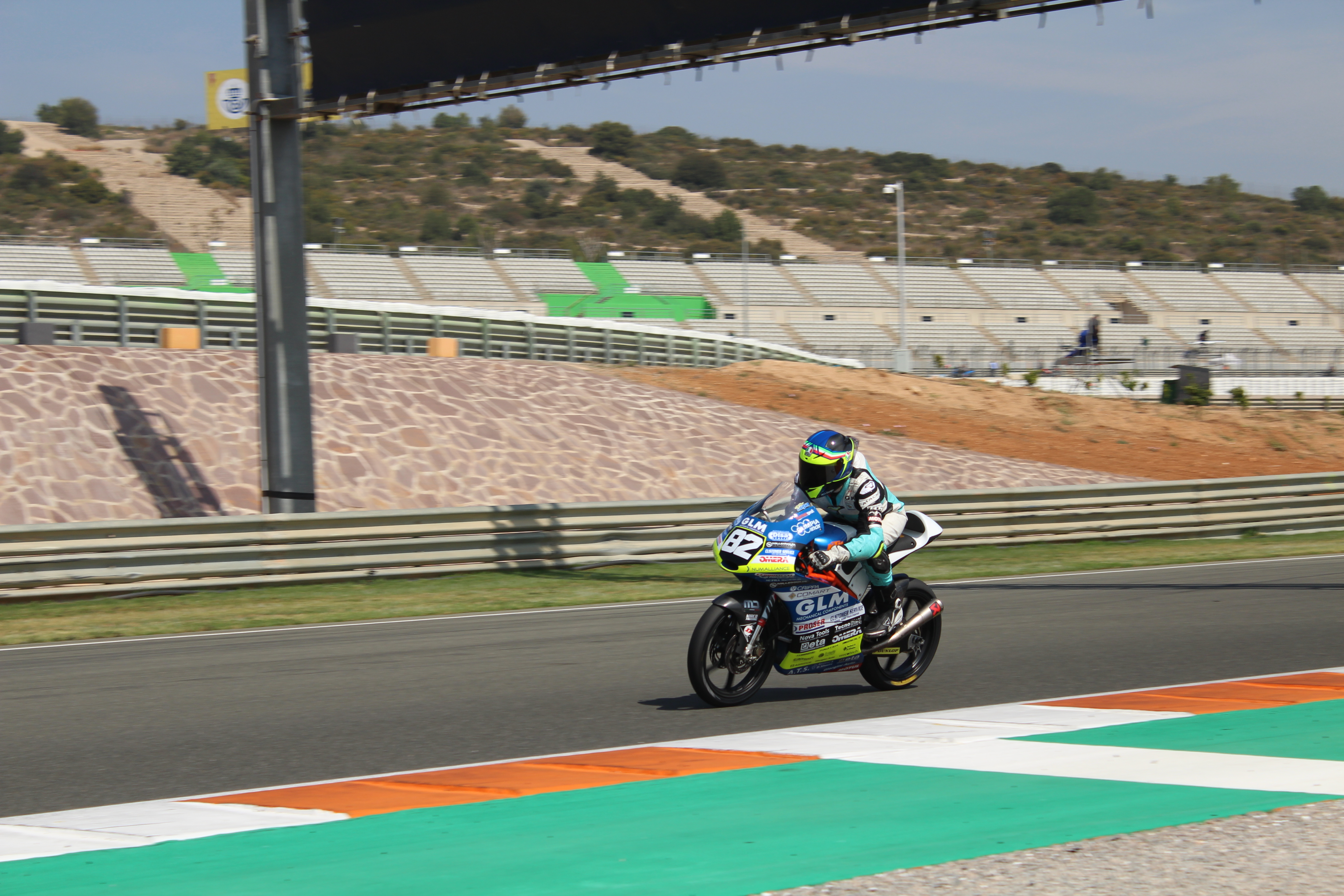 FIM CEV Repsol 2018 - Valencia Round I